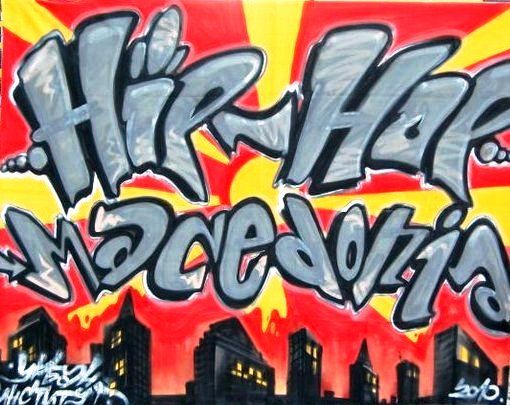 Graffiti Hip Hop Makedonija